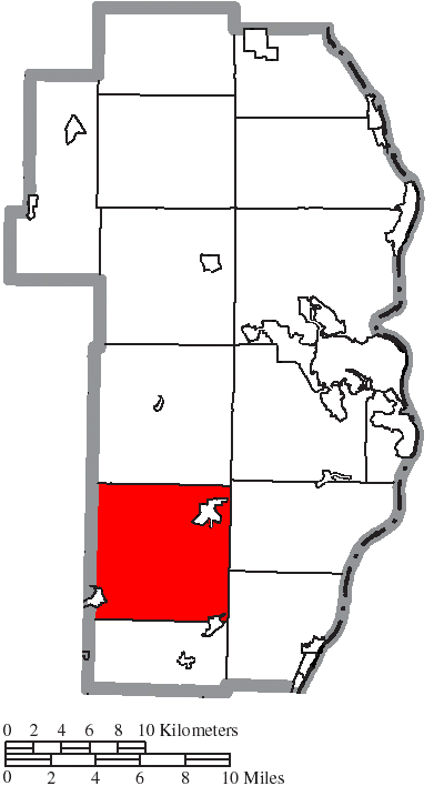 Map of the municipal and township boundaries of Jefferson County, Ohio, United States, as of the 2000 census, with the location of Smithfield Township highlighted. Township borders are shown only in unincorporated areas in order to differentiate incorporated and unincorporated areas more clearly.